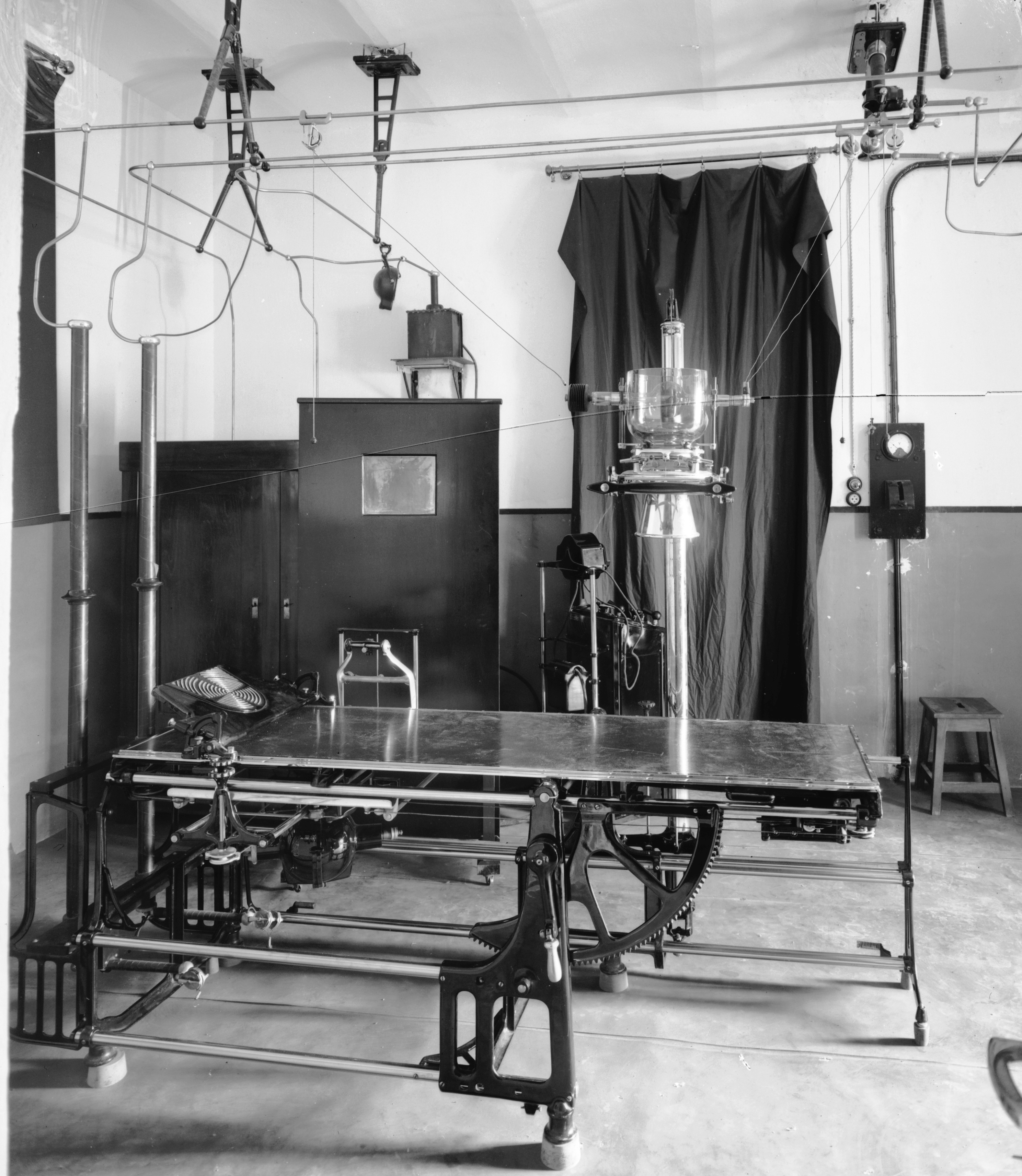 Jerusalem Municipal Hospital.